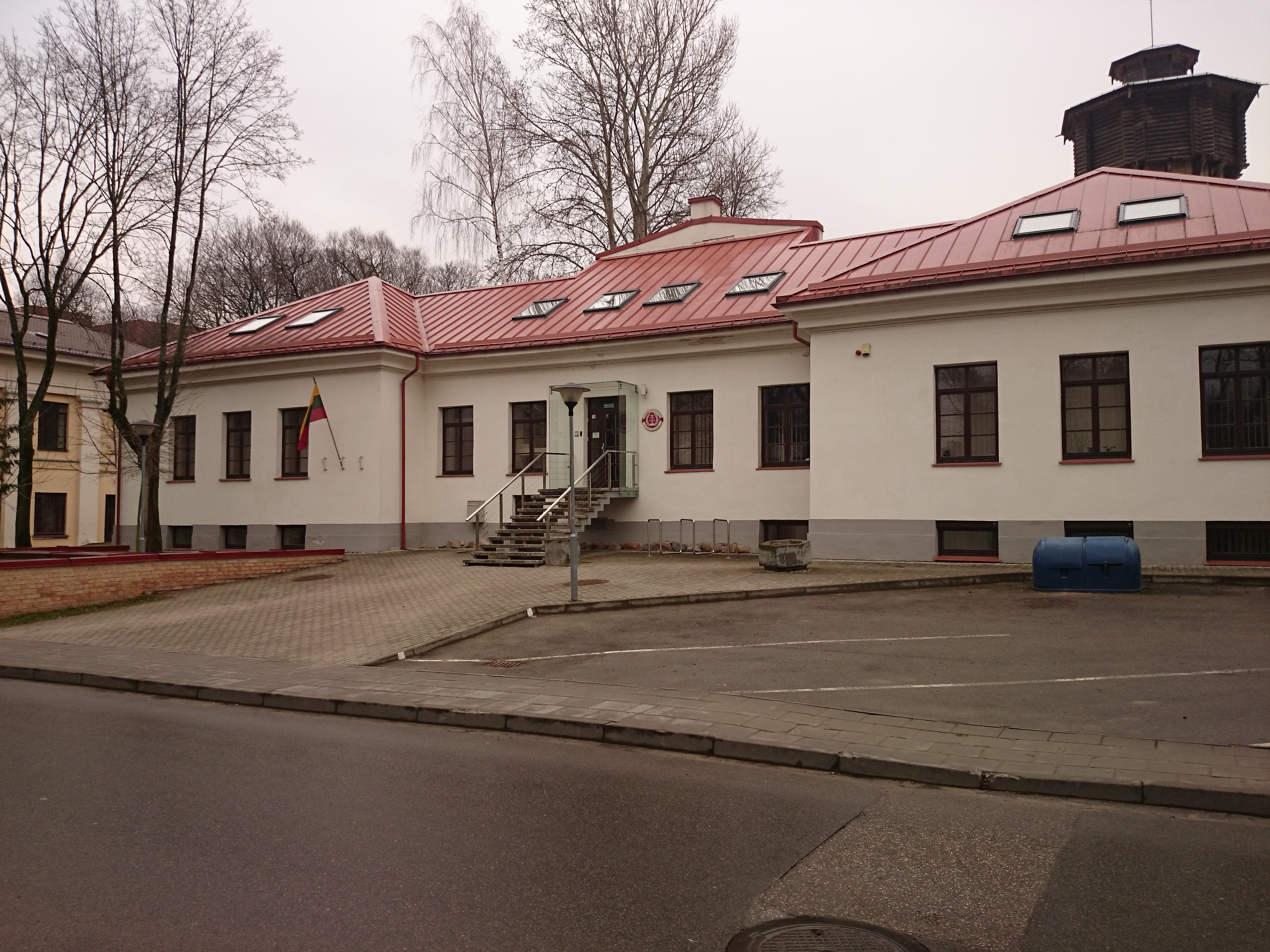 Norim kilt